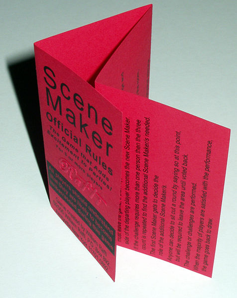 A modern chapbook, in this case for a party game.